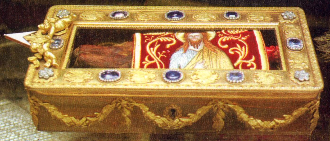 Relics (right hand) Saint John the Baptist